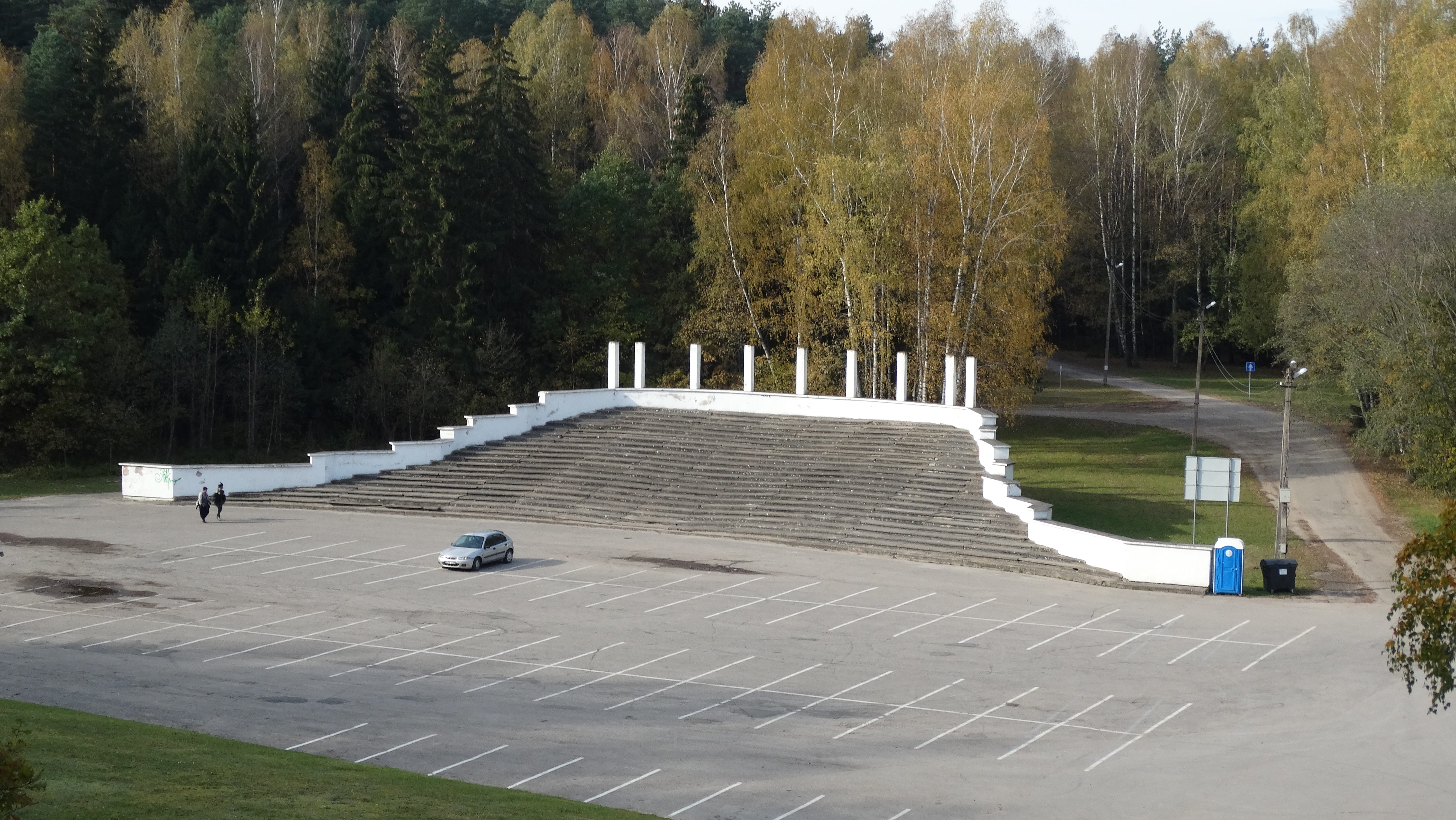 Park stage, Alytus, Lithuania